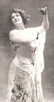 A young white woman in a dance pose; her arms are bare, and she is wearing a corseted, fringed dress, possibly a costume. She is holding castanets.